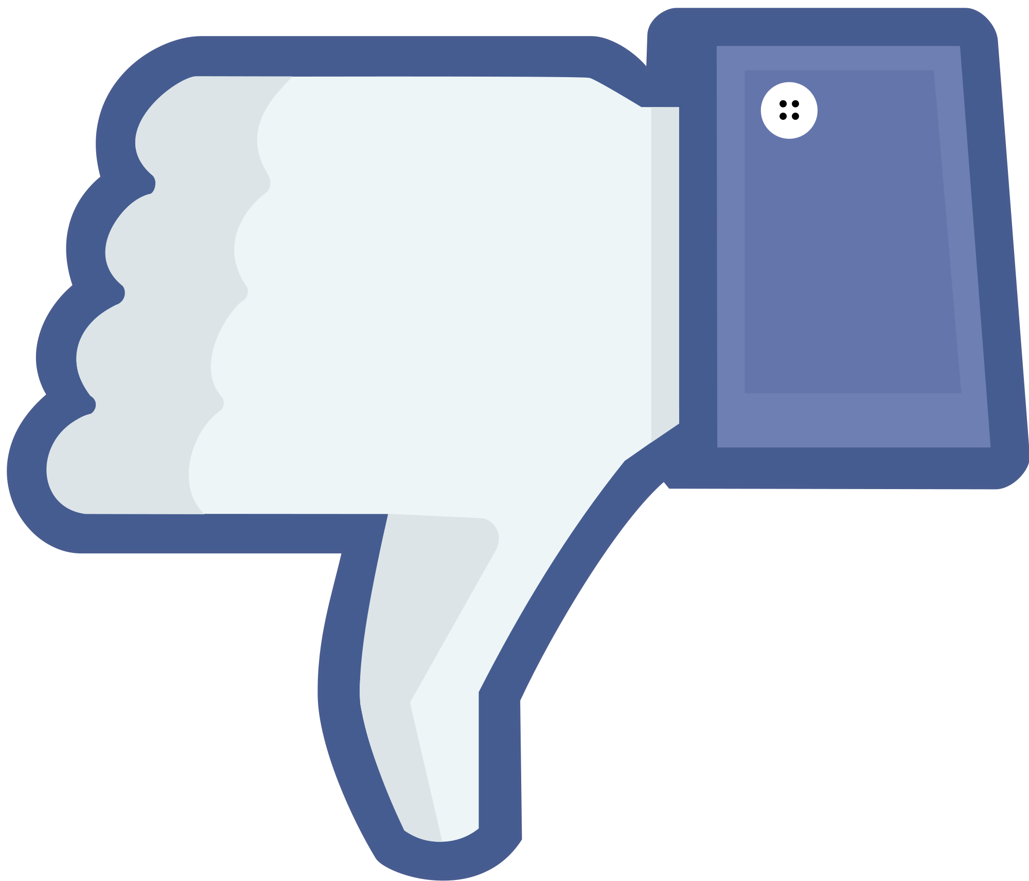 Rotated 180 version of Facebook like thumb.png